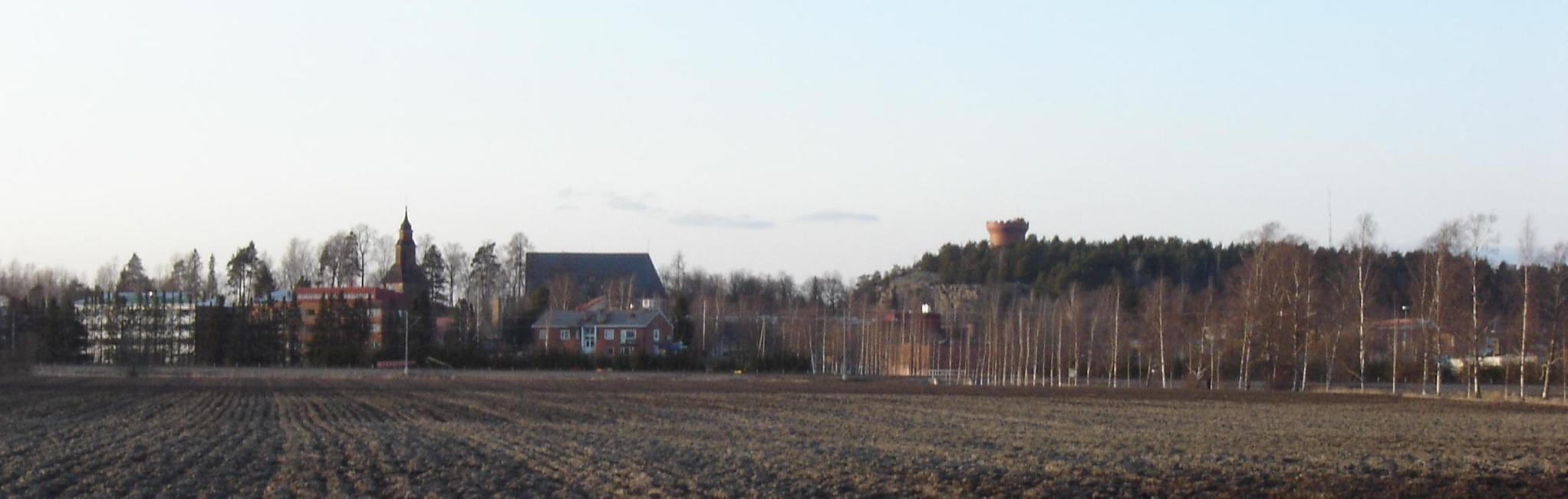 the Central of Halikko